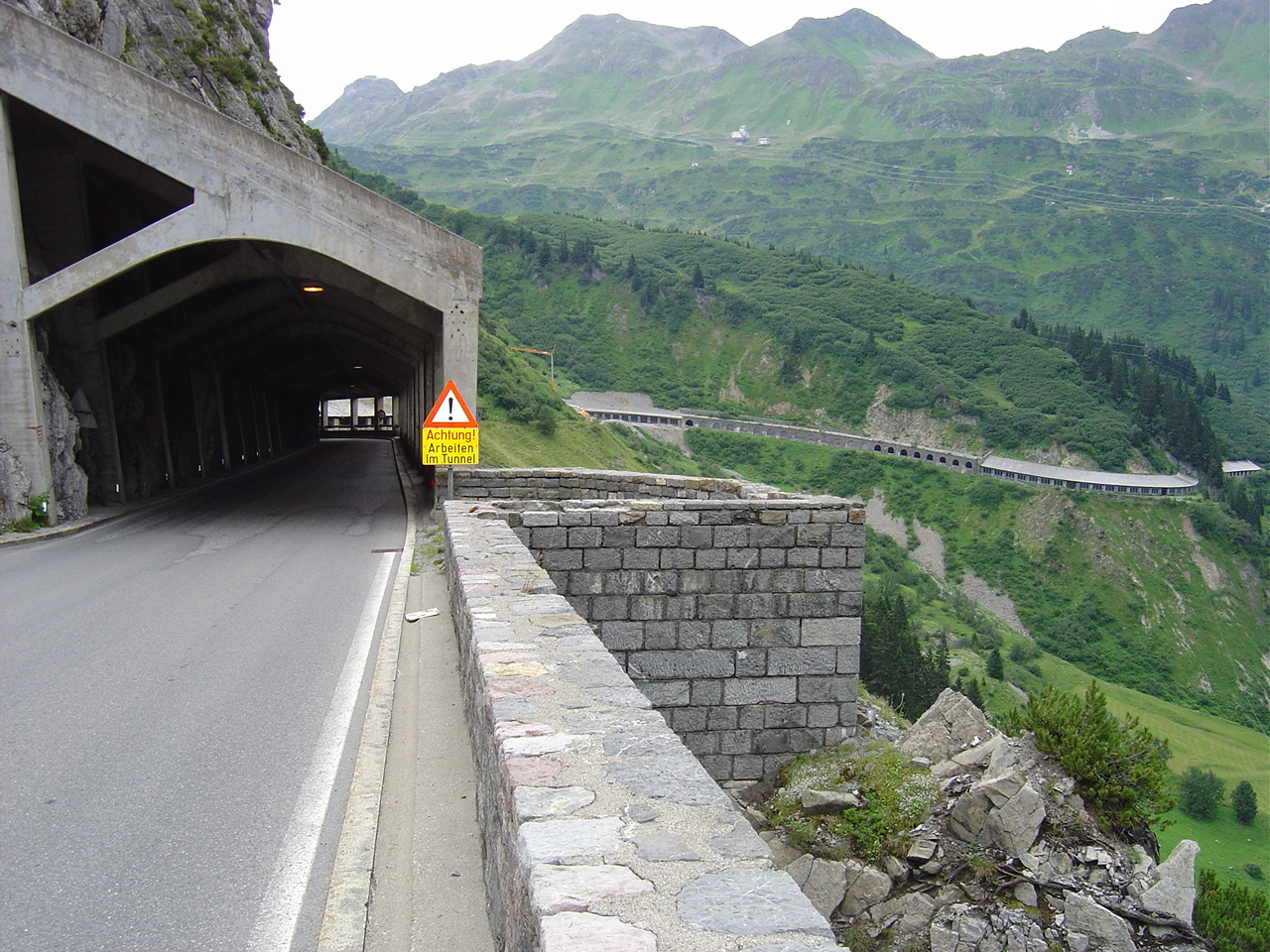 Snow galleries of the Flexenpass road looking towards Arlbergpass.